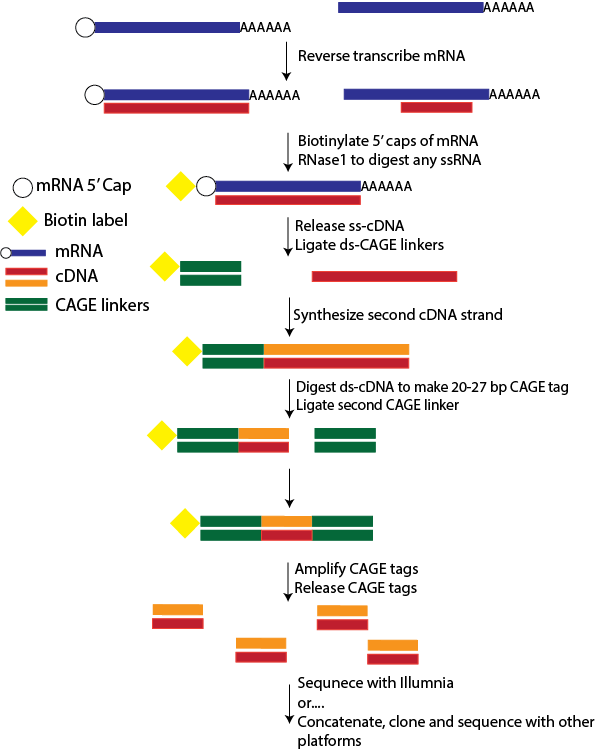 Schematic overview of cap analysis gene expression (CAGE). First, mRNAs are reverse transcribed in the presence of trehalose and sorbitol (allow reaction to occur at higher temperatures so secondary RNA structures can be relaxed and transcribed). Next, the 5’ caps of mRNA are biotinylated, RNase1 digests any ss-RNA, and full-length cDNA-RNA hybrids are captured using streptavidin beads (cap trapper method). cDNA is released from RNA, and a ds-CAGE linker is ligated to the ss-CDNA. The linker is biotinylated, and has cut sites for restriction enzymes. Synthesis of the second cDNA strand then occurs, after which, it is digested by a restriction enzyme, such as Mme1, leaving a 20-26 bp CAGE tag. A second linker is ligated onto CAGE tag. Next, the CAGE tags can be amplified, and sequenced.